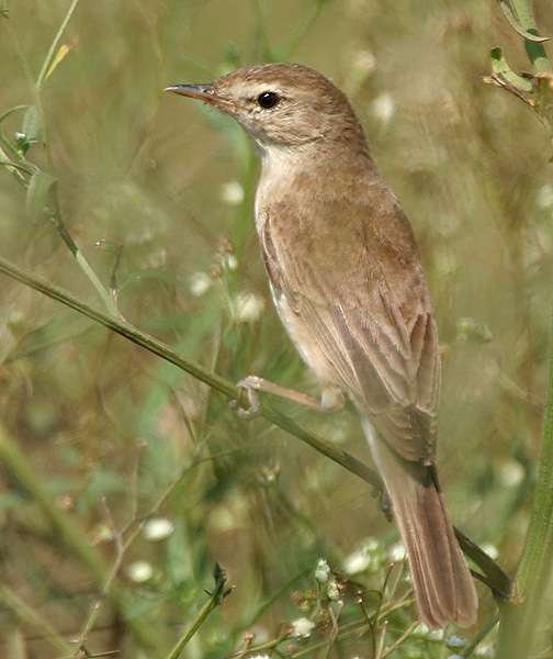 Sykes's Warbler Hippolais rama in Krishna Wildlife Sanctuary, Andhra Pradesh, India.